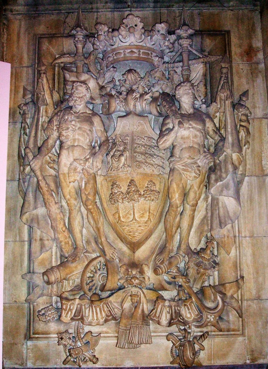 Relieve en el trasaltar de la Catedral Nueva de Vitoria-Gasteiz